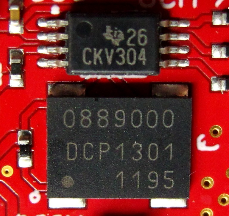 Microelectromechanical system (MEMS) oscillator chip with a frequency of 88.9 MHz in a 7.0 mm x 5.0 mm plastic package soldered on a PCB. On top a clock distribution chip in a TSOP-8 package